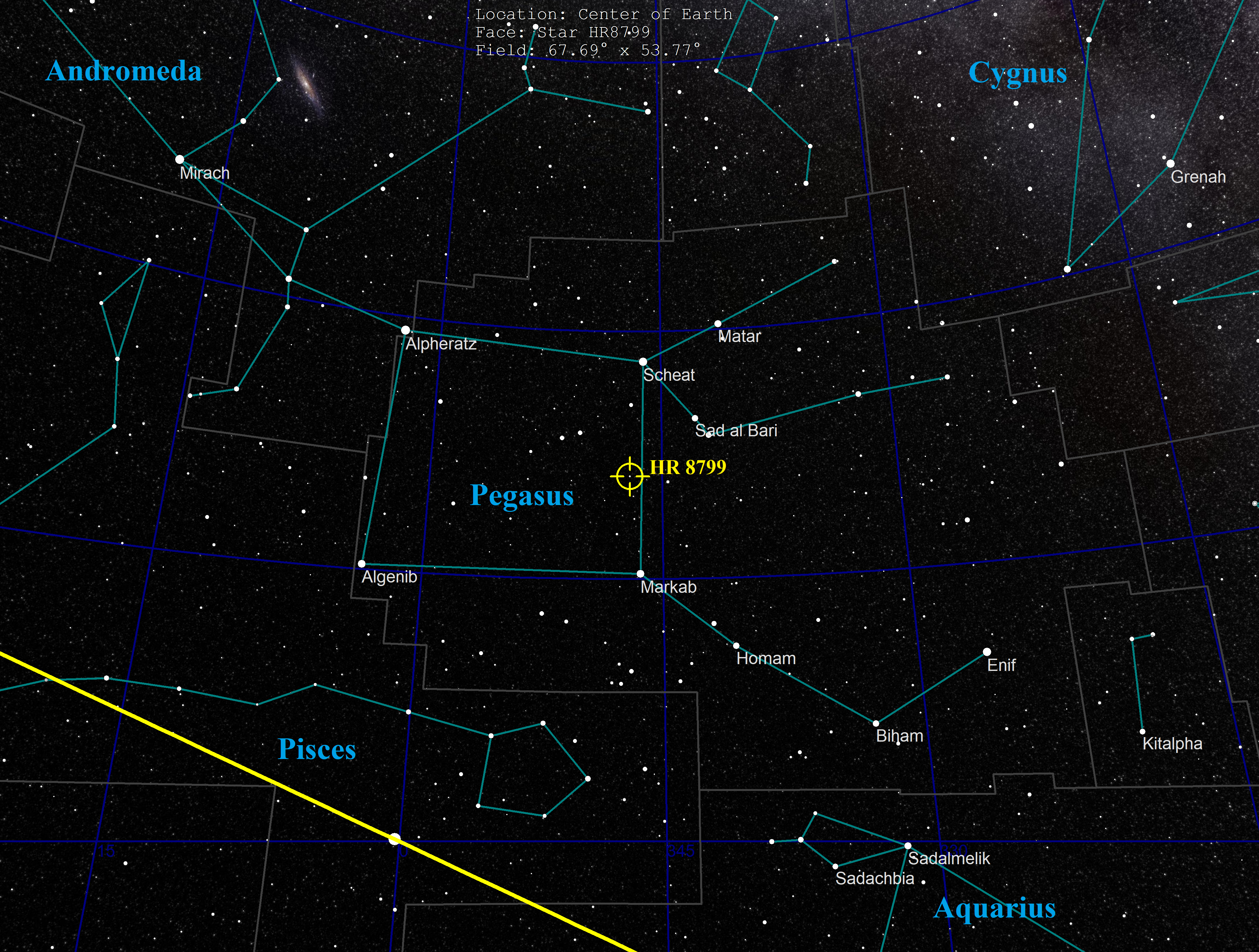 HR_8799 starmap